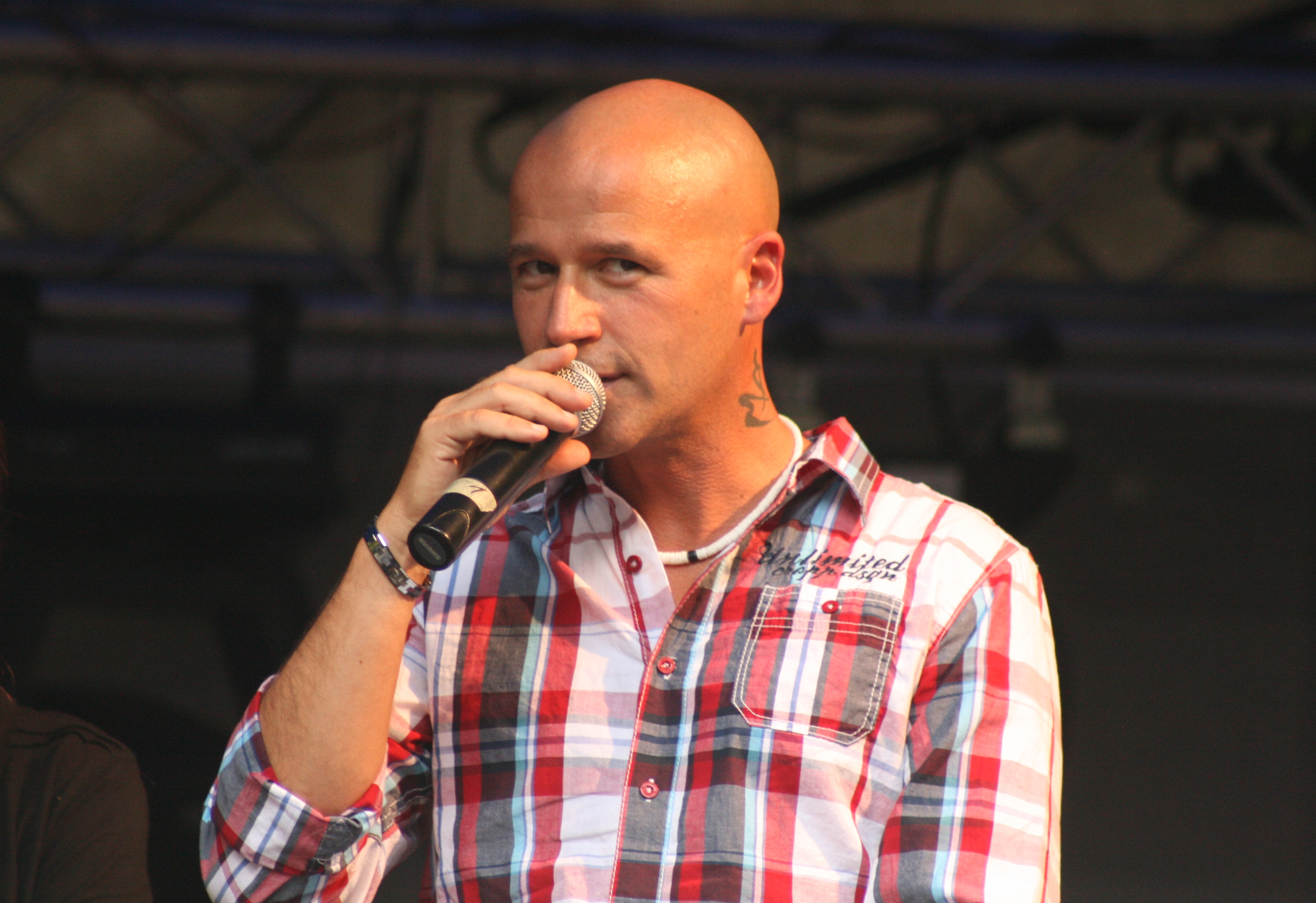 Honza Musil moderating Prague Pride 2011 music festival at Střelecký ostrov, Prague, Czech Republic.